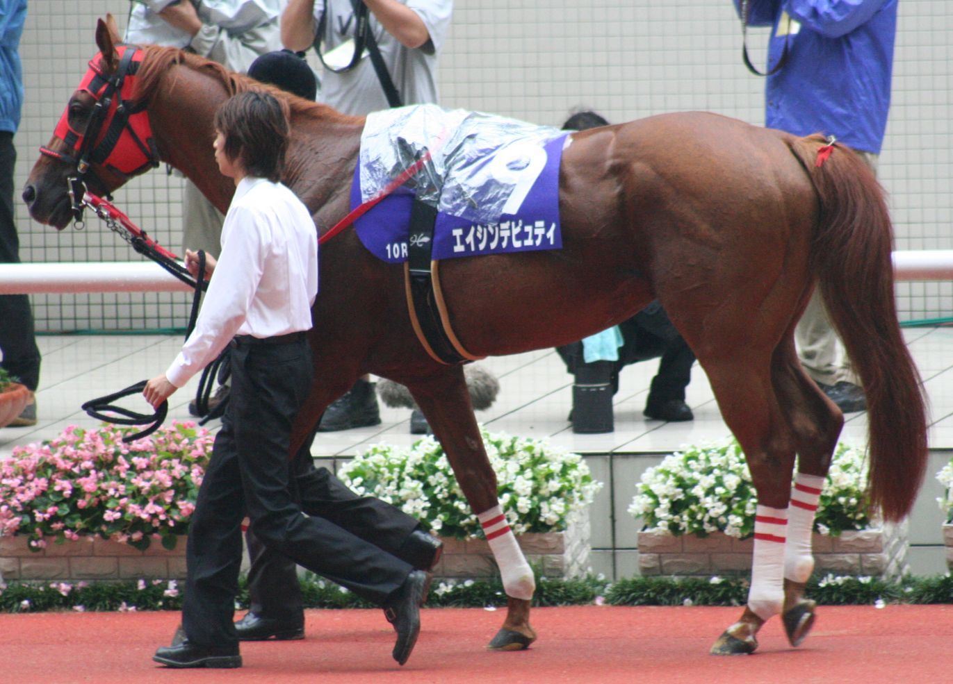 Eishin Deputy (Hansin Racecourse)